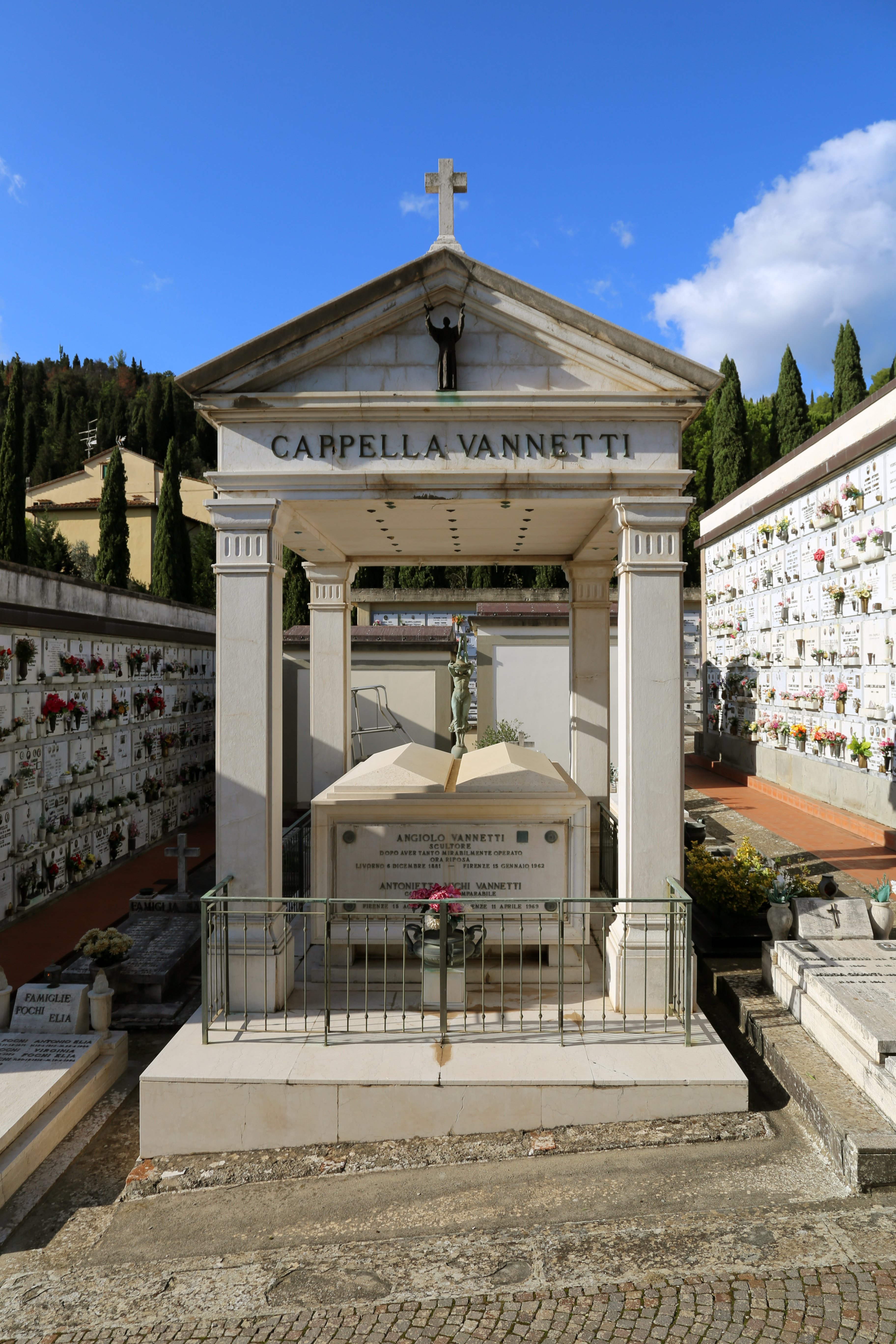 Settignano cemetery